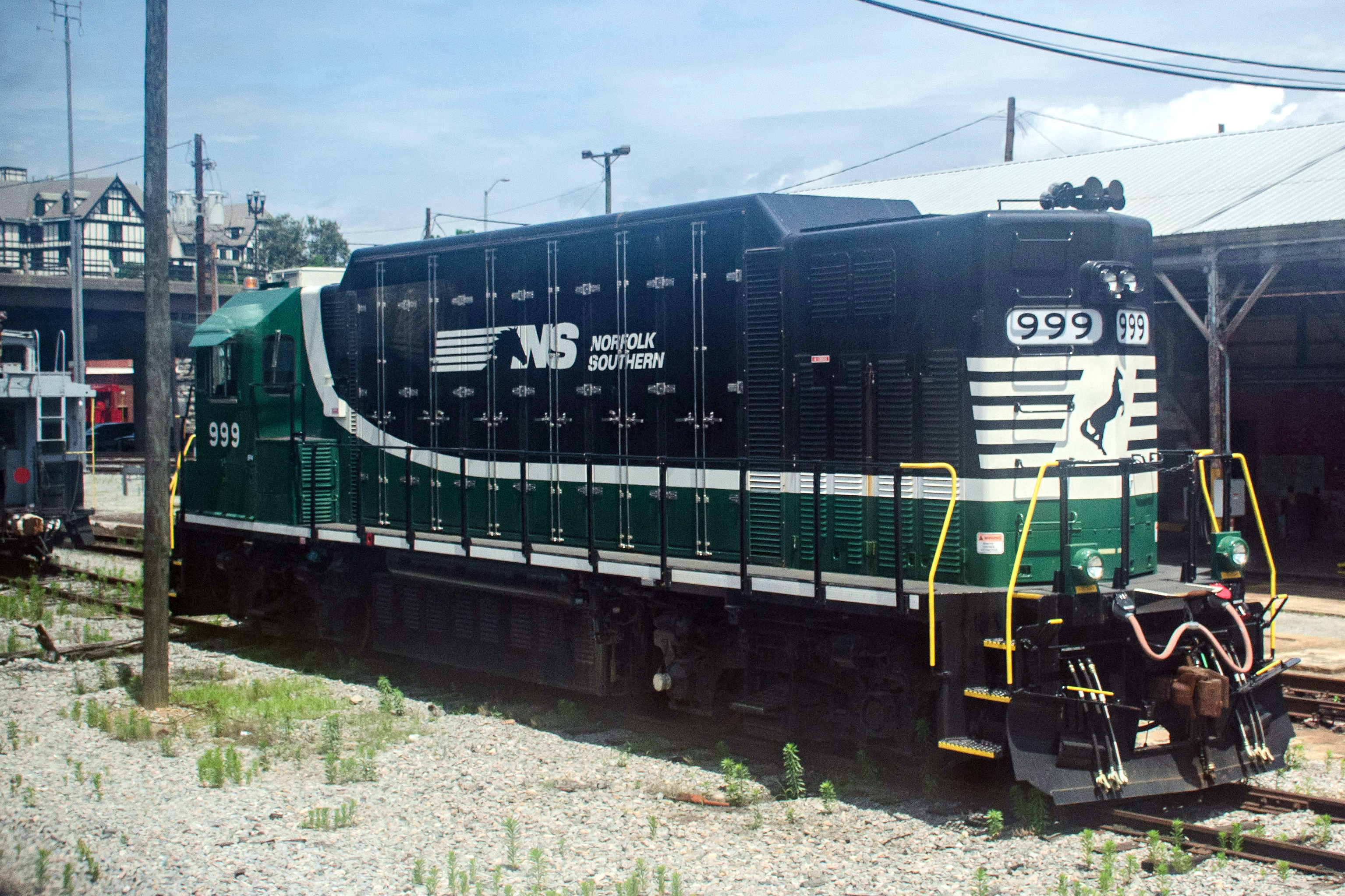 Norfolk Southern locomotive #999 at Roanoke's East End Shops in May 2017. NS #999 is their lone BP4, a battery-powered 1350hp switcher built on a GP38 frame.